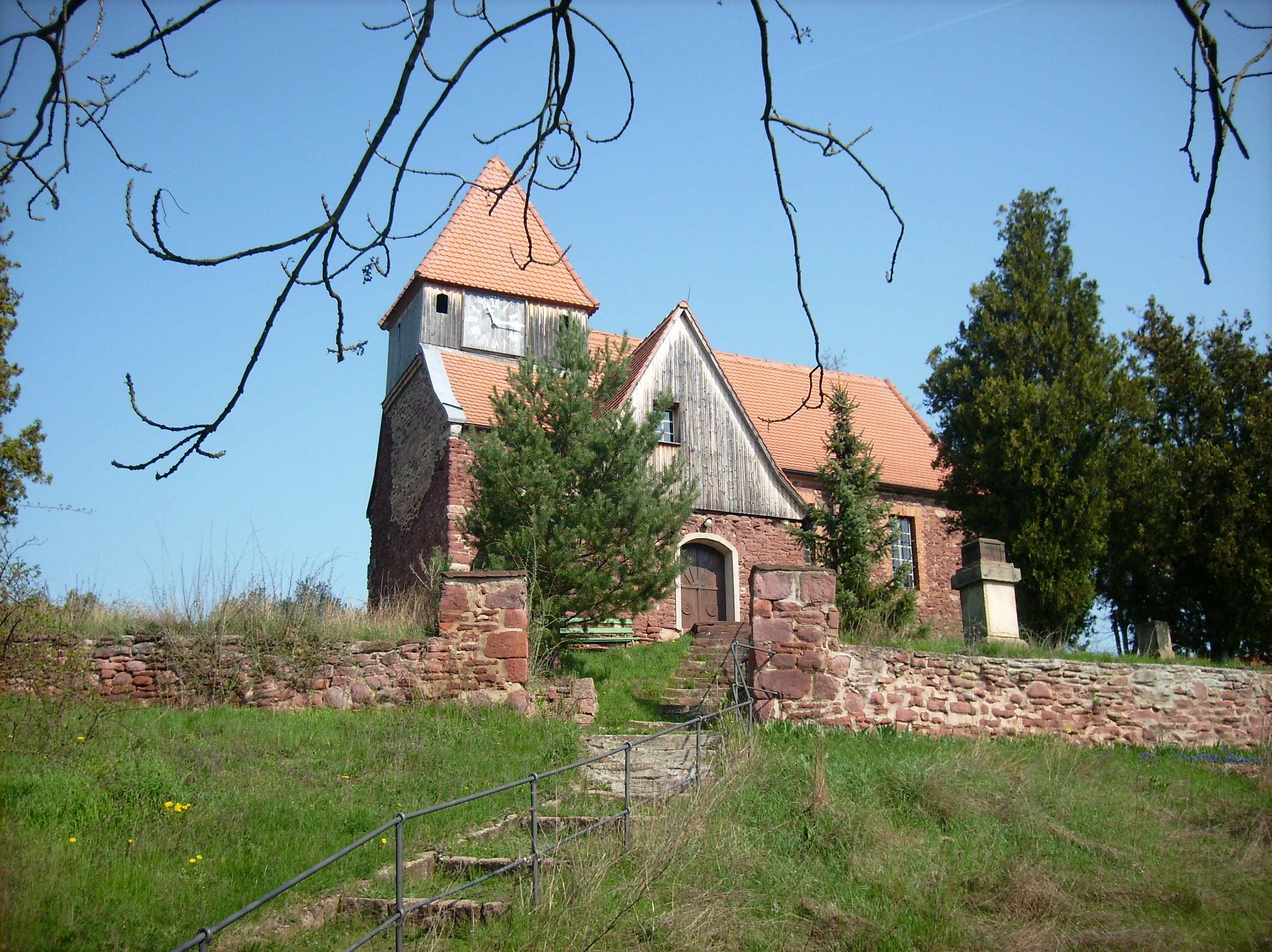 Church of the village of Dobis (Wettin-Löbejün, district of Saalekreis, Saxony-Anhalt)